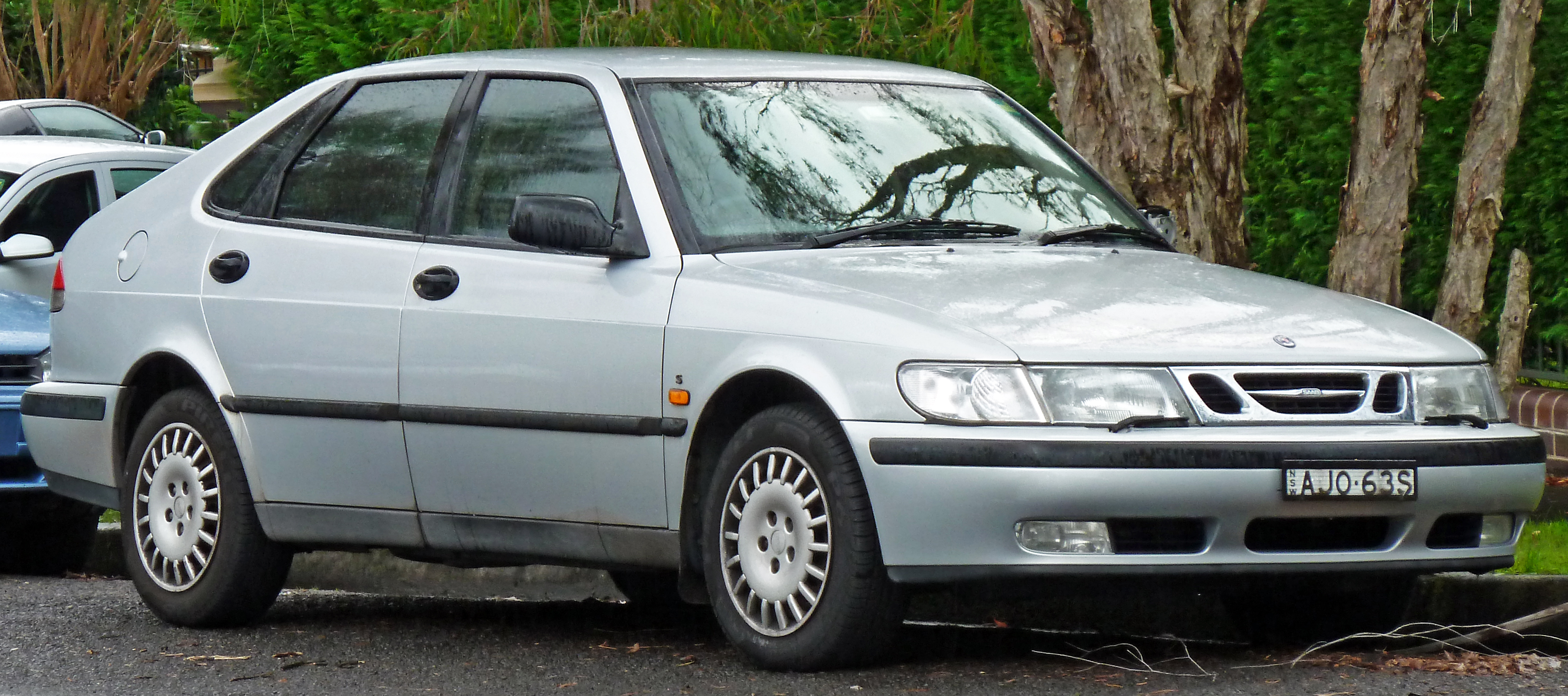 2000 Saab 9-3 S 5-door hatchback. Photographed in Lindfield, New South Wales, Australia.